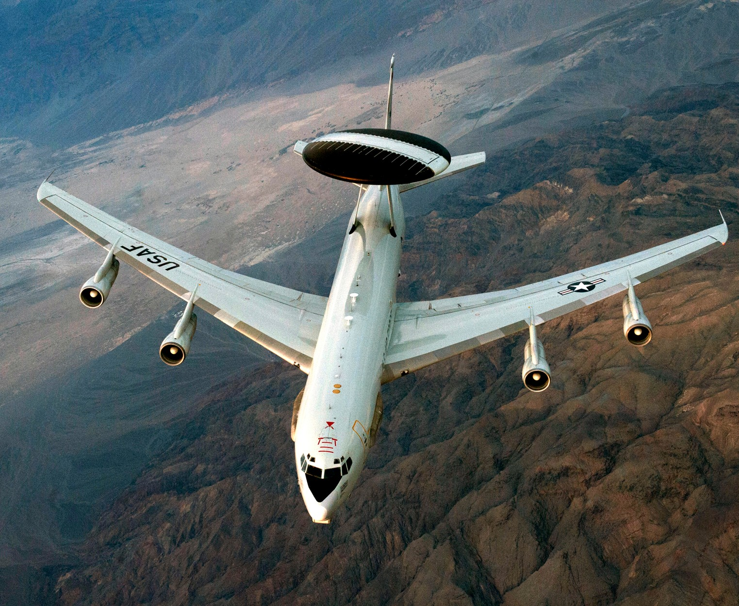 An E-3 Sentry airborne warning and control system aircraft soars over Nevada after a refueling mission during exercise Green Flag-West 13-02 at Nellis Air Force Base, Nevada, Nov. 1, 2012. The aircraft is assigned to the 963rd Airborne Air Control Squadron at Tinker Air Force Base, Oklahoma.